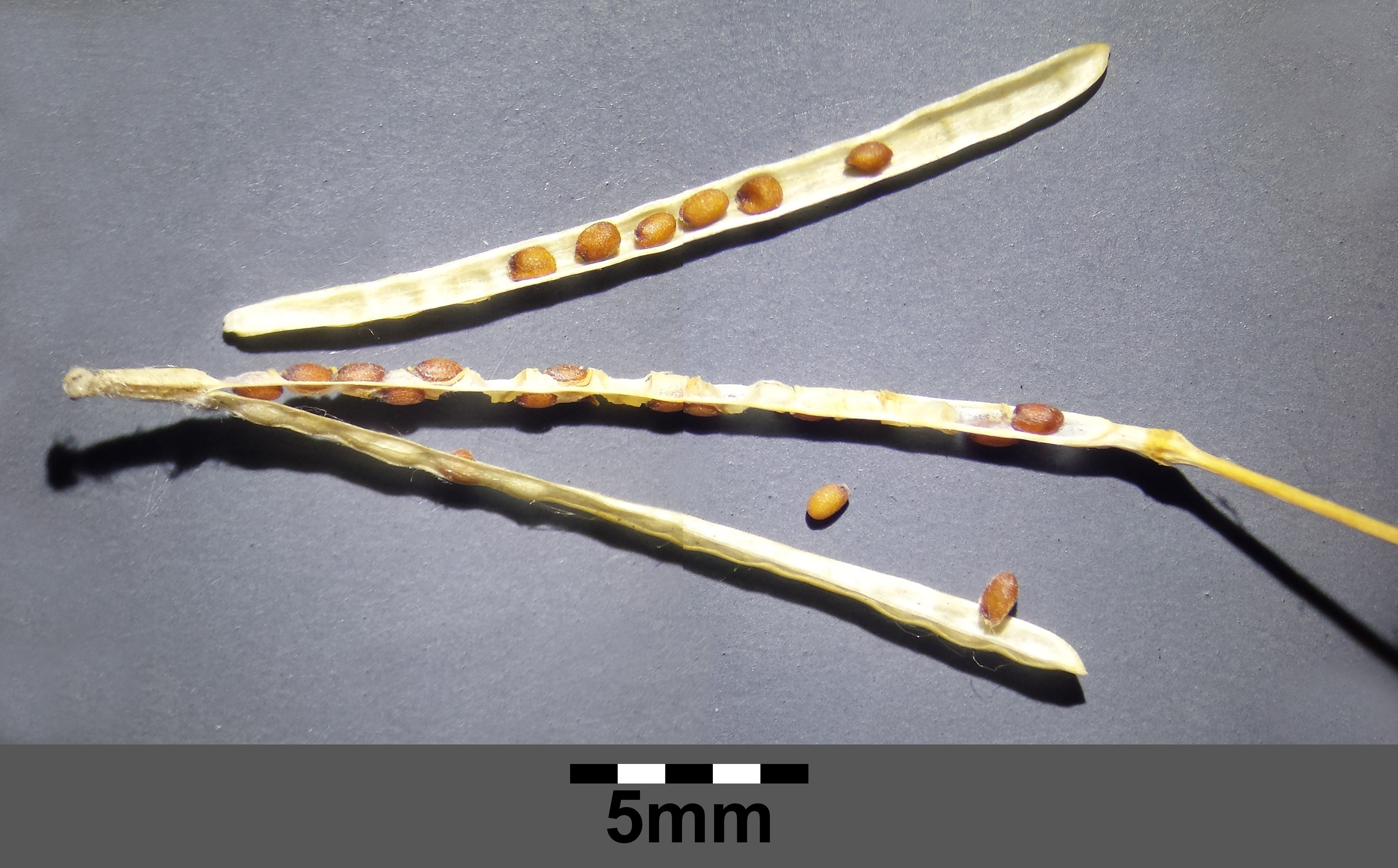 Silique with seeds Taxonym: Erucastrum nasturtiifolium ss Fischer et al. EfÖLS 2008 ISBN 978-3-85474-187-9 Location: Neue Donau, district Korneuburg, Lower Austria - ca. 160 m a.s.l. (leg.: 2015-07-23) Habitat: ruderal meadows